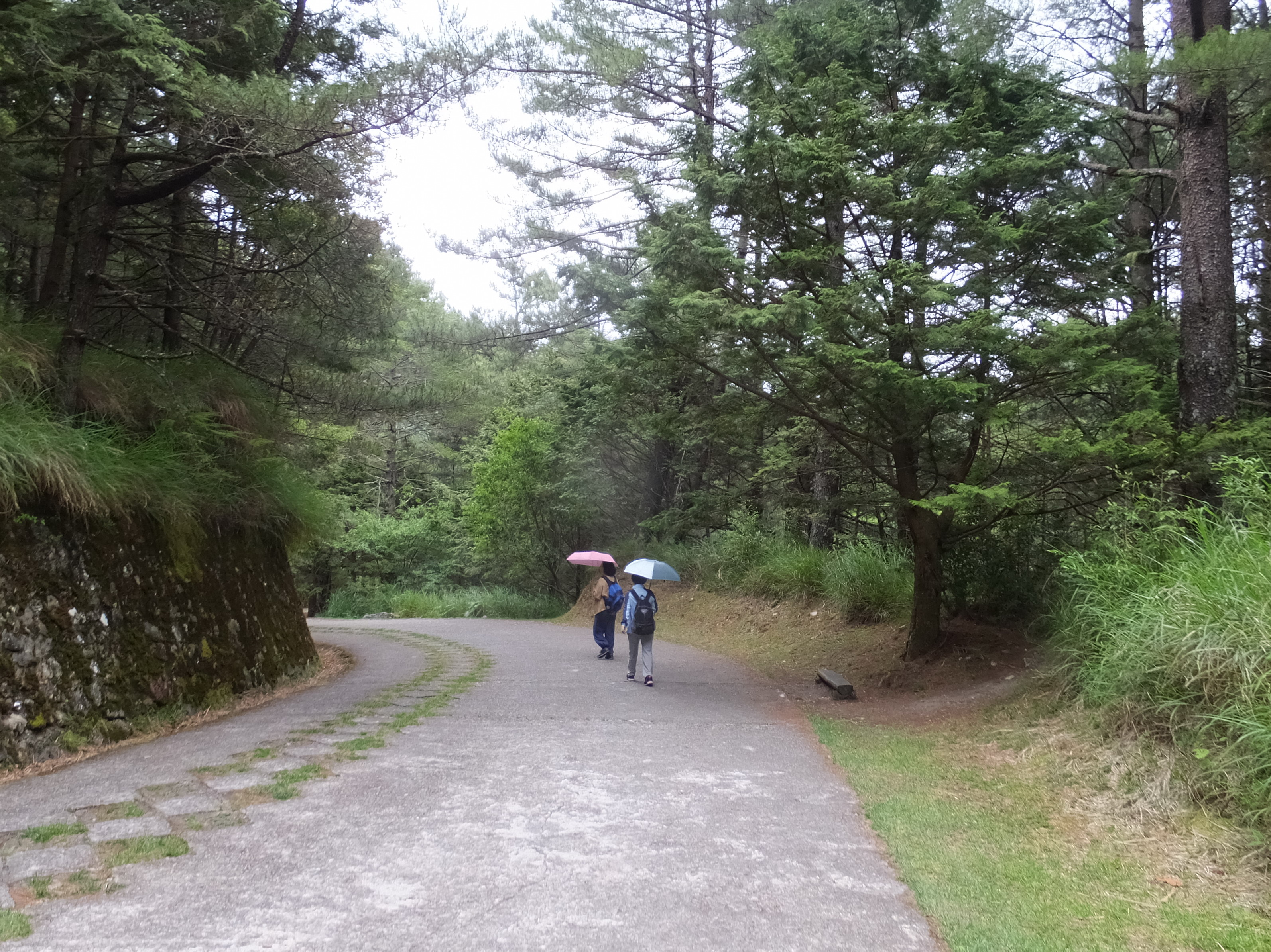 Daxueshan Forest Road 大雪山林道